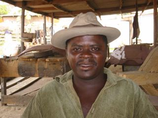 Portrait Cedi Annang Kwei, Ghanain Coffinmaker